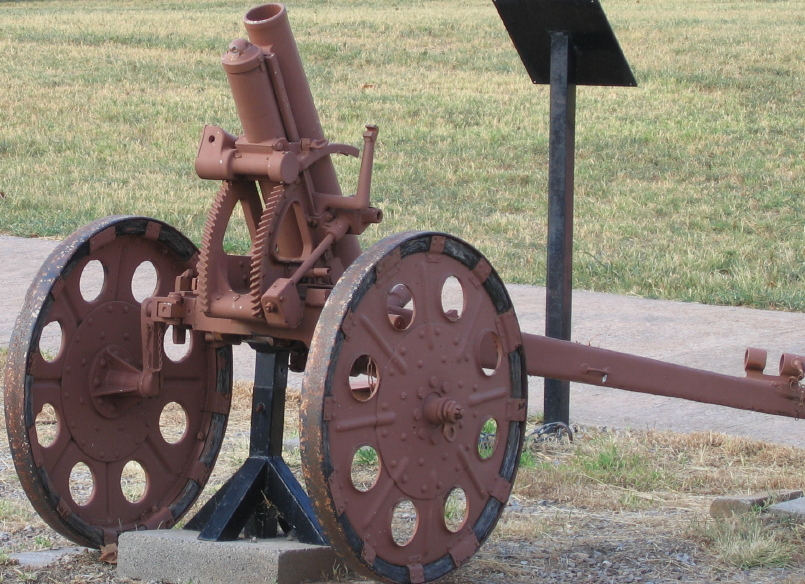 front view of a 70 mm Type 92 battalion gun at Ft. Sill, OK